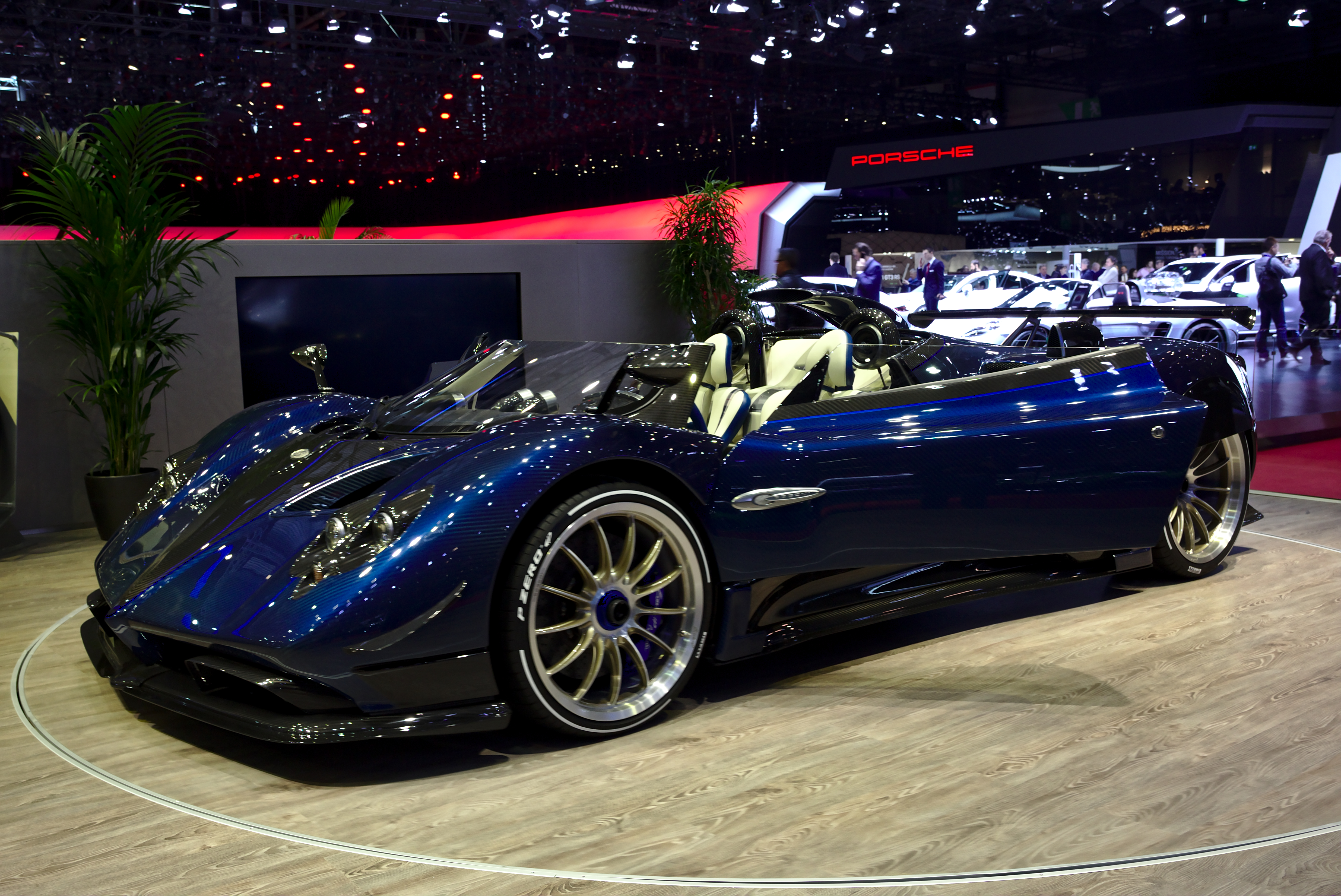 Pagani Zonda HP Barchetta at Geneva Motorshow 2018